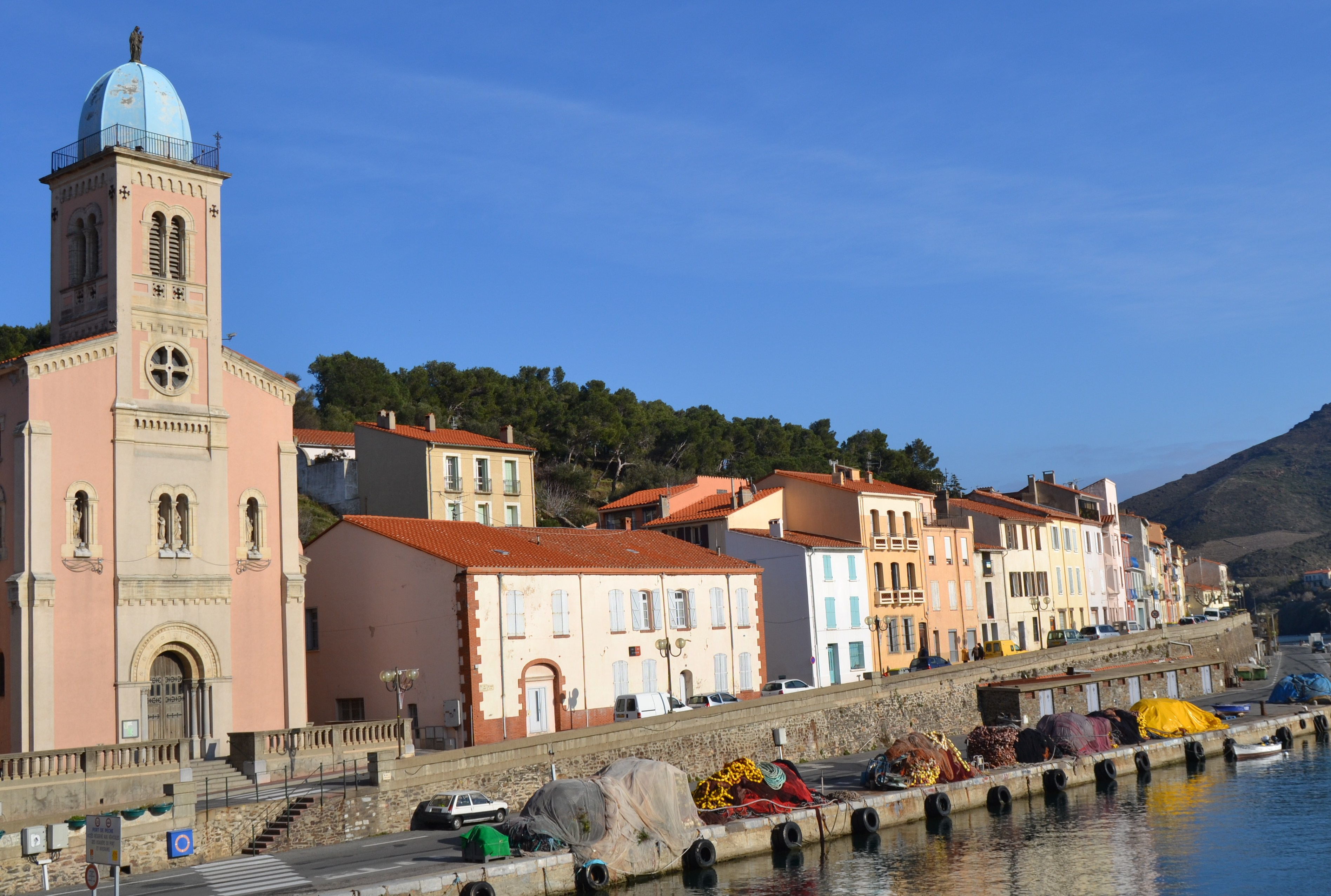 Port-Vendres, a french village on the coast